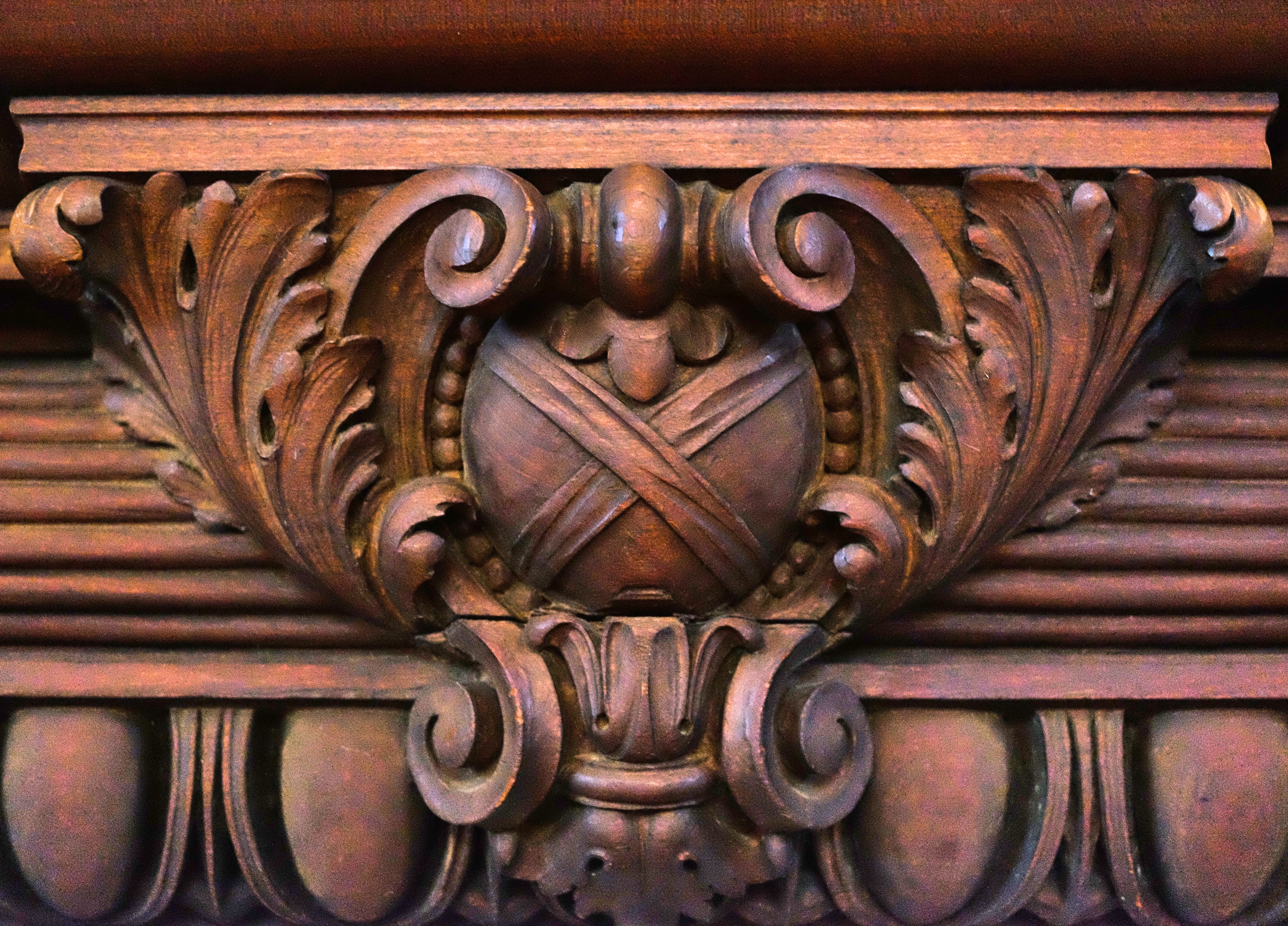 Cross of St. Andrew carved into the library fireplace's mantel.